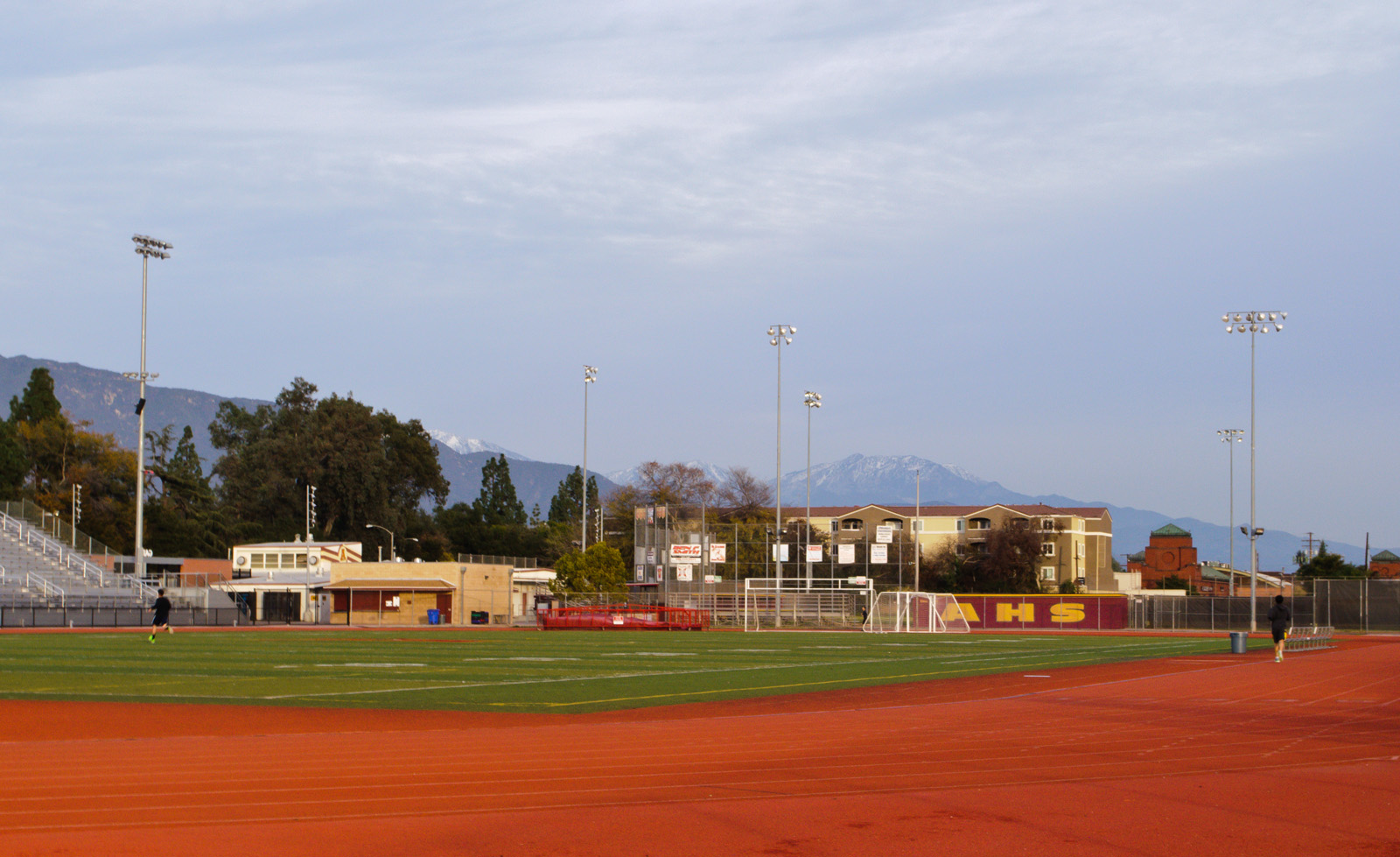 Doing a Christmas afternoon photo session on the campus of Arcadia High School. Arcadia is located just east of Pasadena, and 20 miles northeast of Los Angeles; thanks to Arcadia being home to Santa Anita Racetrack, Arcadia's public schools are better funded than in the rest of California, and Arcadia has developed a legendary status among wealthy Asian immigrants (especially those from Taiwan) as a result. Having once lived in Arcadia myself, it's always nice to come back for a new look. A look at Salter Stadium, named after a retiring teacher in 1992. Salter Stadium has gone through several changes since then, including completely new bleachers, new running tracks, and Astroturf for the football field. As far as high school stadia go, this is among the best, and good enough to even host international track meets. The snow-capped peaks of the San Gabriel Mountains, including Mt. San Antonio (Mt. Baldy), are in the distance.